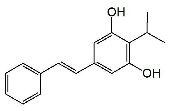 Chemical structure of 3,5-dihydroxy-4-isopropyl-trans-stilbene